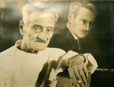 Photograph of the painter in his late years, in front of a self-portrait of his youth